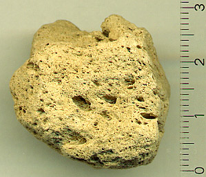 Pumice from Teide volcano. Scale in centimetres. Photo User:MPF